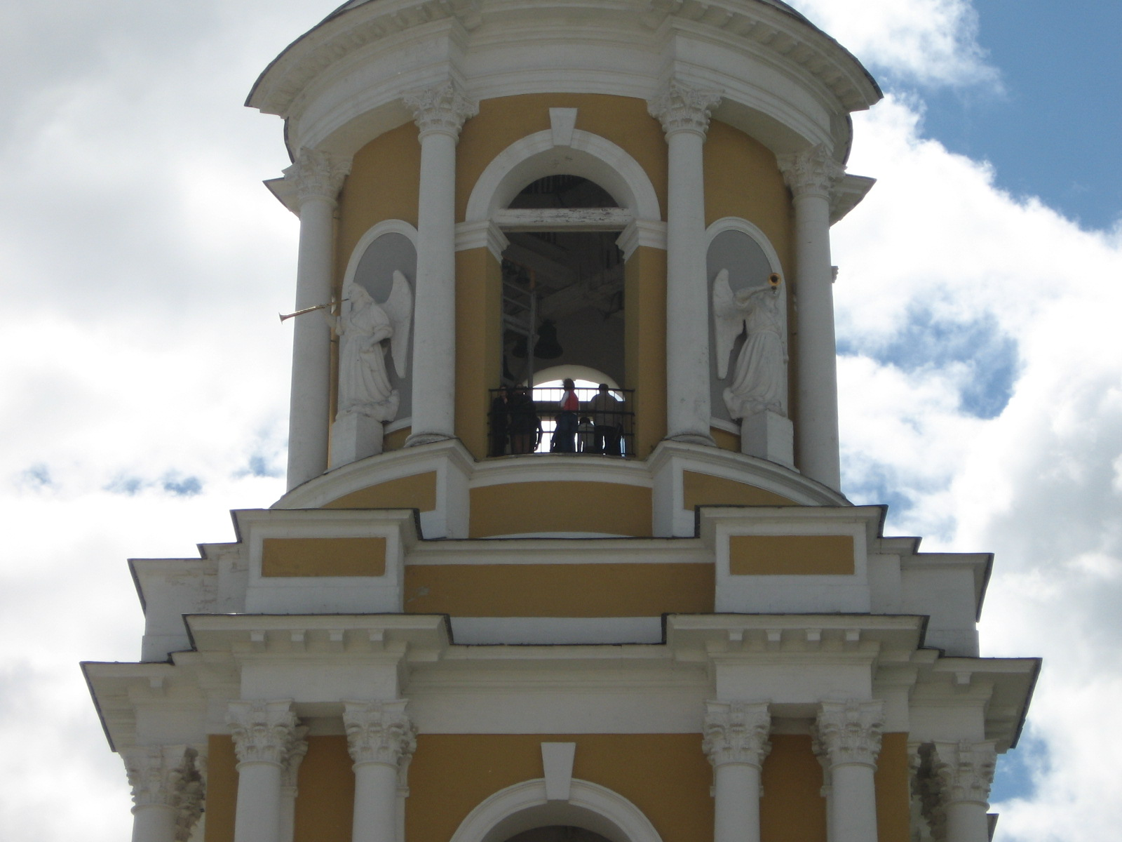 Ryazan Belltower. Angels.